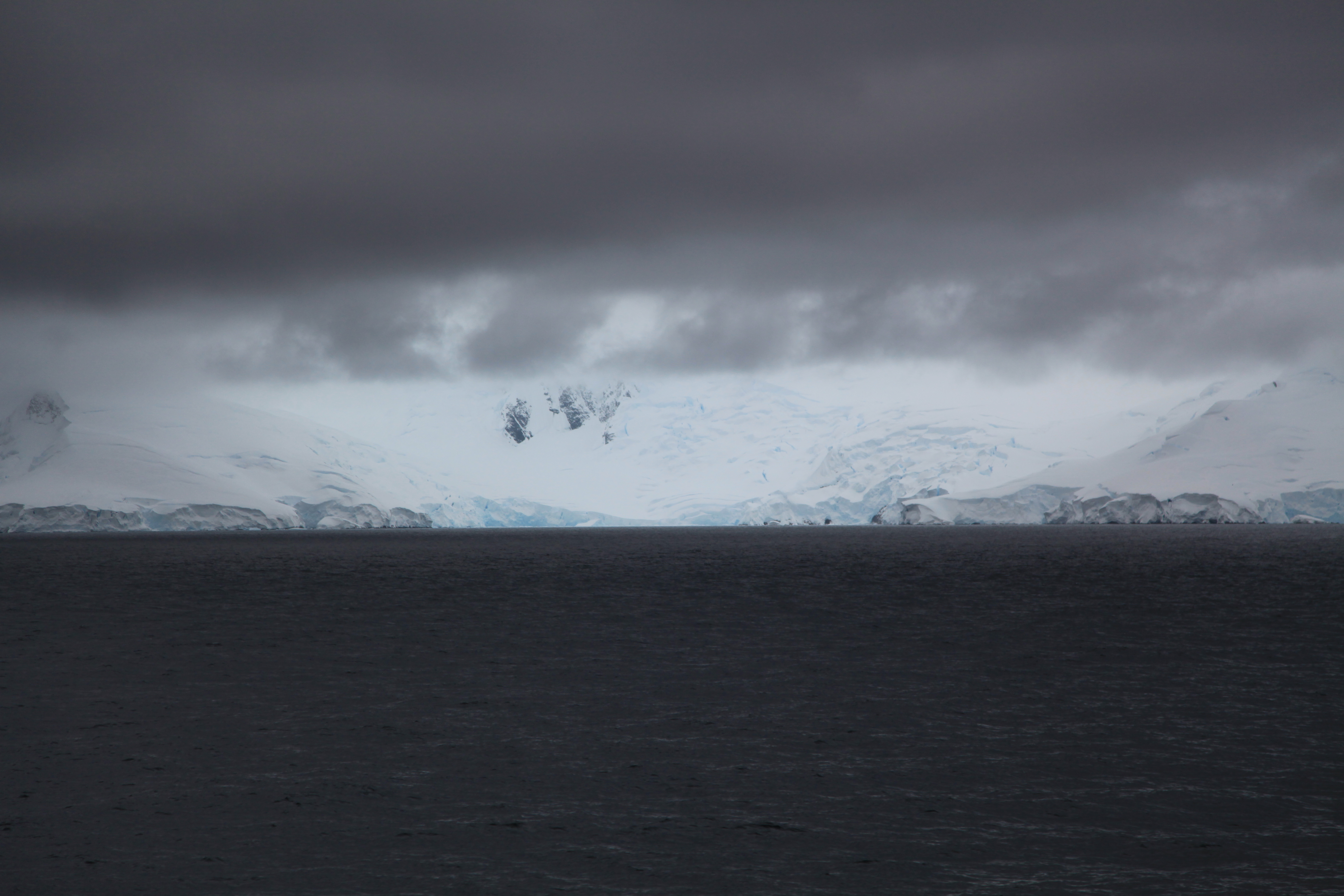 Low, grey clouds in the Gerlache Strait, Antarctica